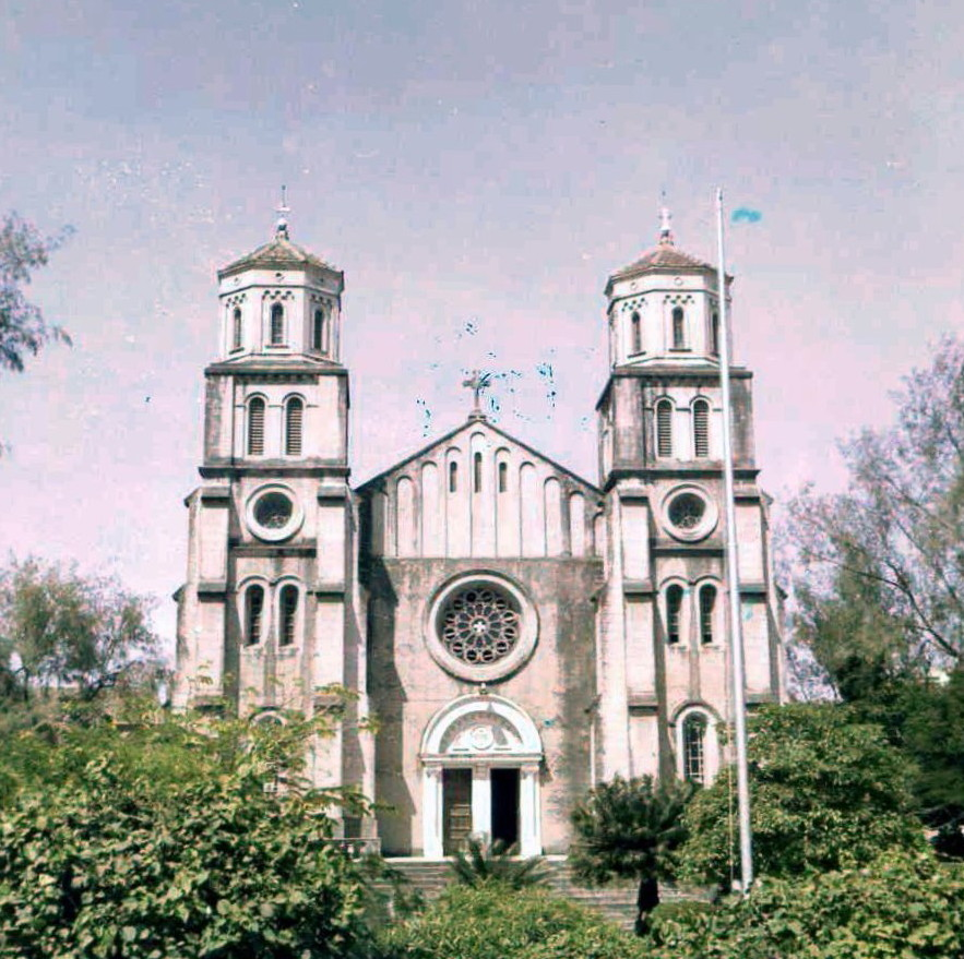 Holy Ghost RC cathedral in Mombasa